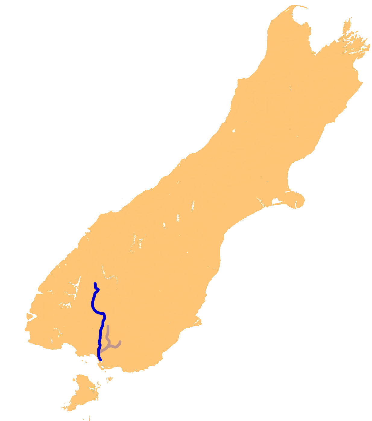 Location map of the Oreti River, South Island, New Zealand